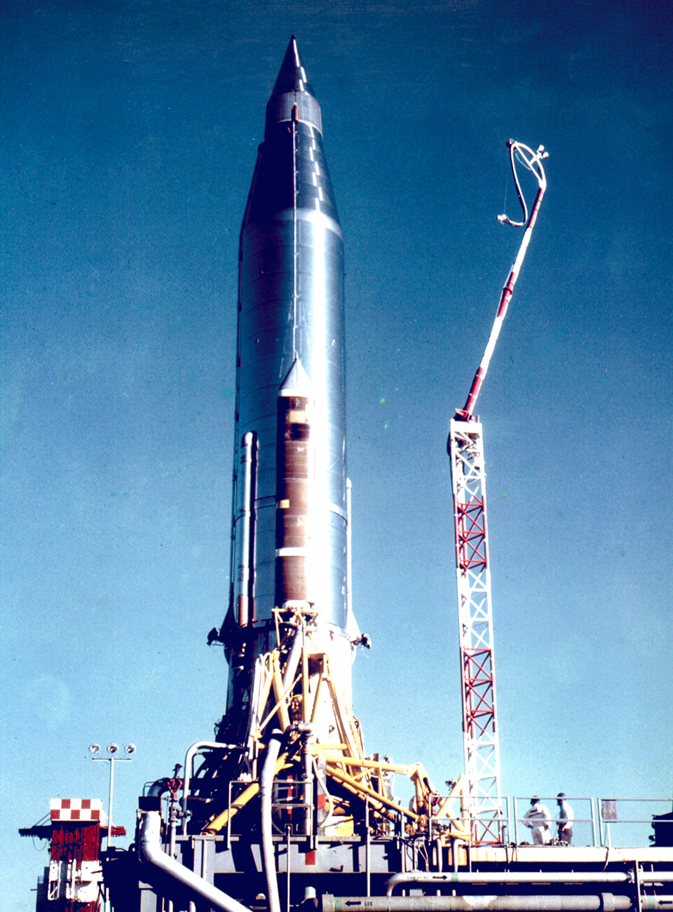 An Atlas-B missile (s/n 10B) being prepared to launch the SCORE satellite from Cape Canaveral LC-11.